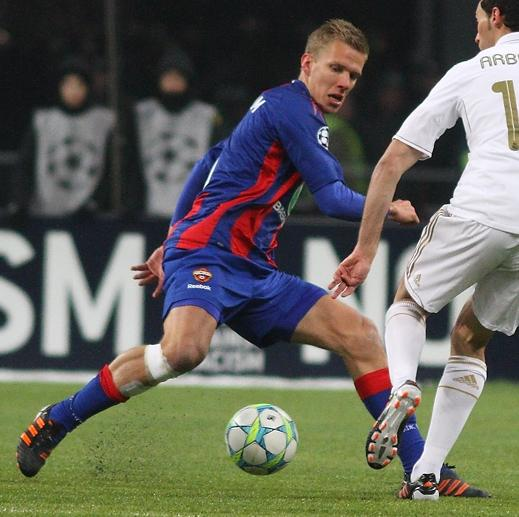 Pontus Wernbloom playing for CSKA Moscow in a game against Real Madrid in a UEFA Champions League in Moscow Russia on 21 February 2012.